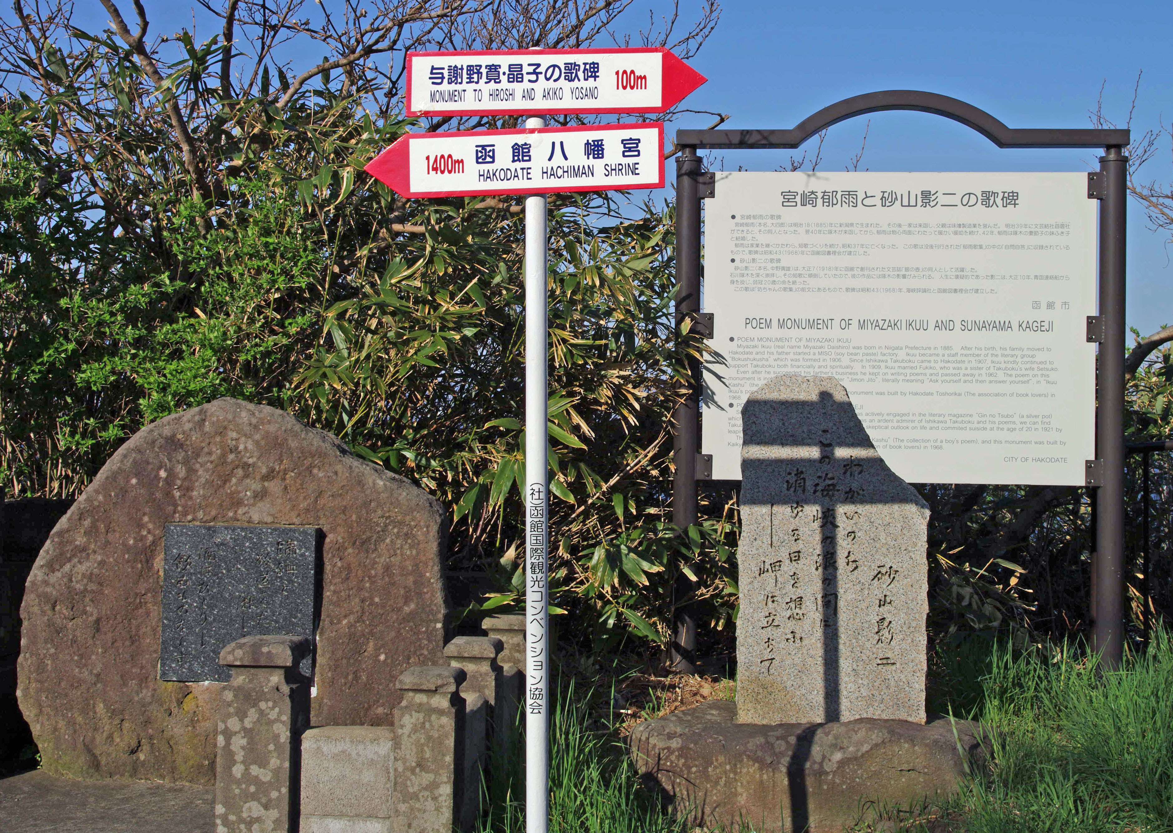 Poem monument of Miyazaki Ikuu and Sunayama Kageji in Hakodate, Hokkaido, Japan